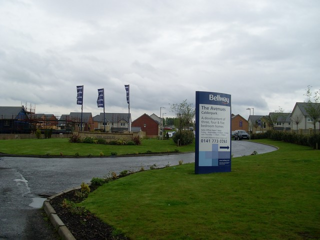 The Avenues, Calderpark New housing development north of Broomhouse.